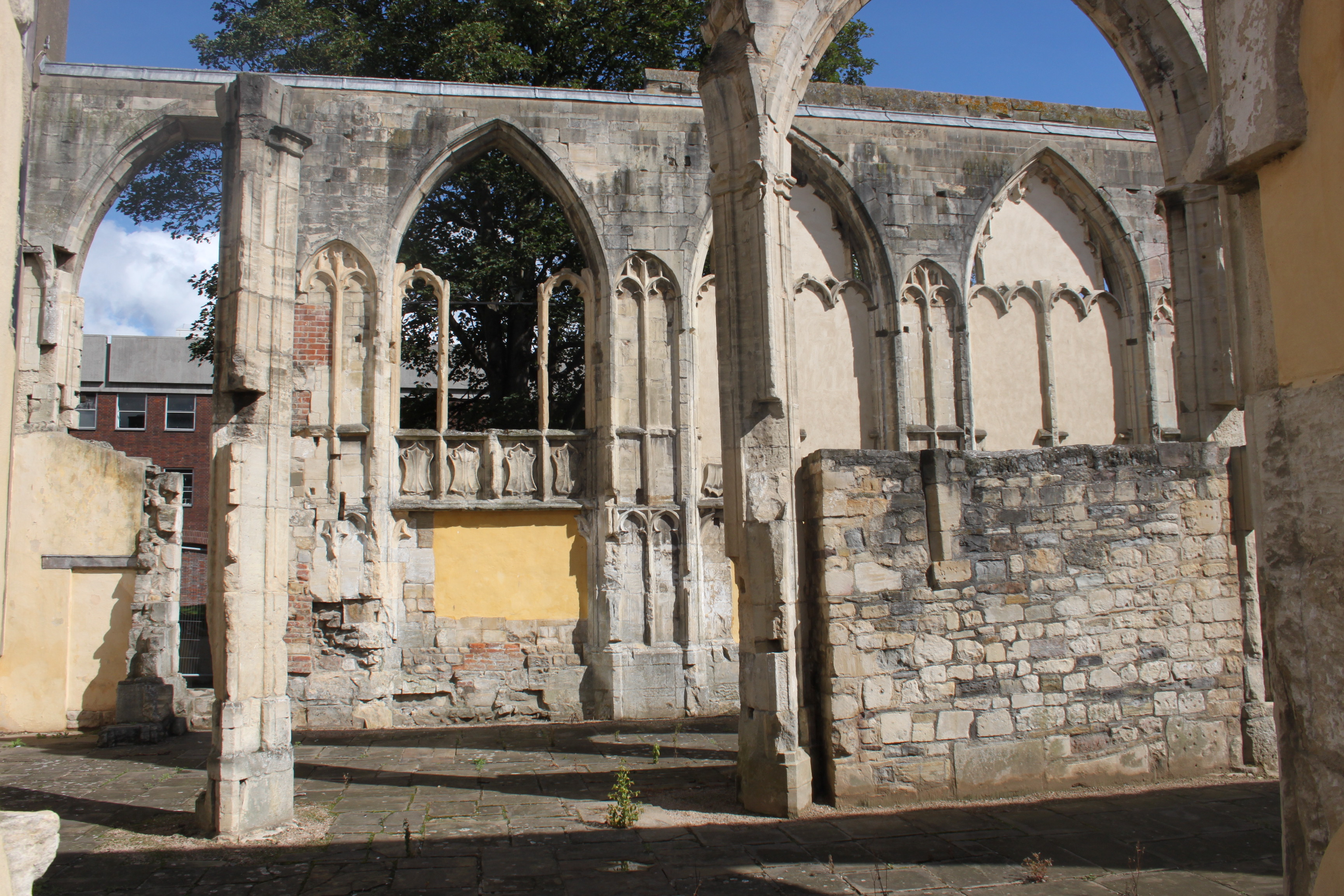 Greyfriars House and Attached Remains of Greyfriars Church